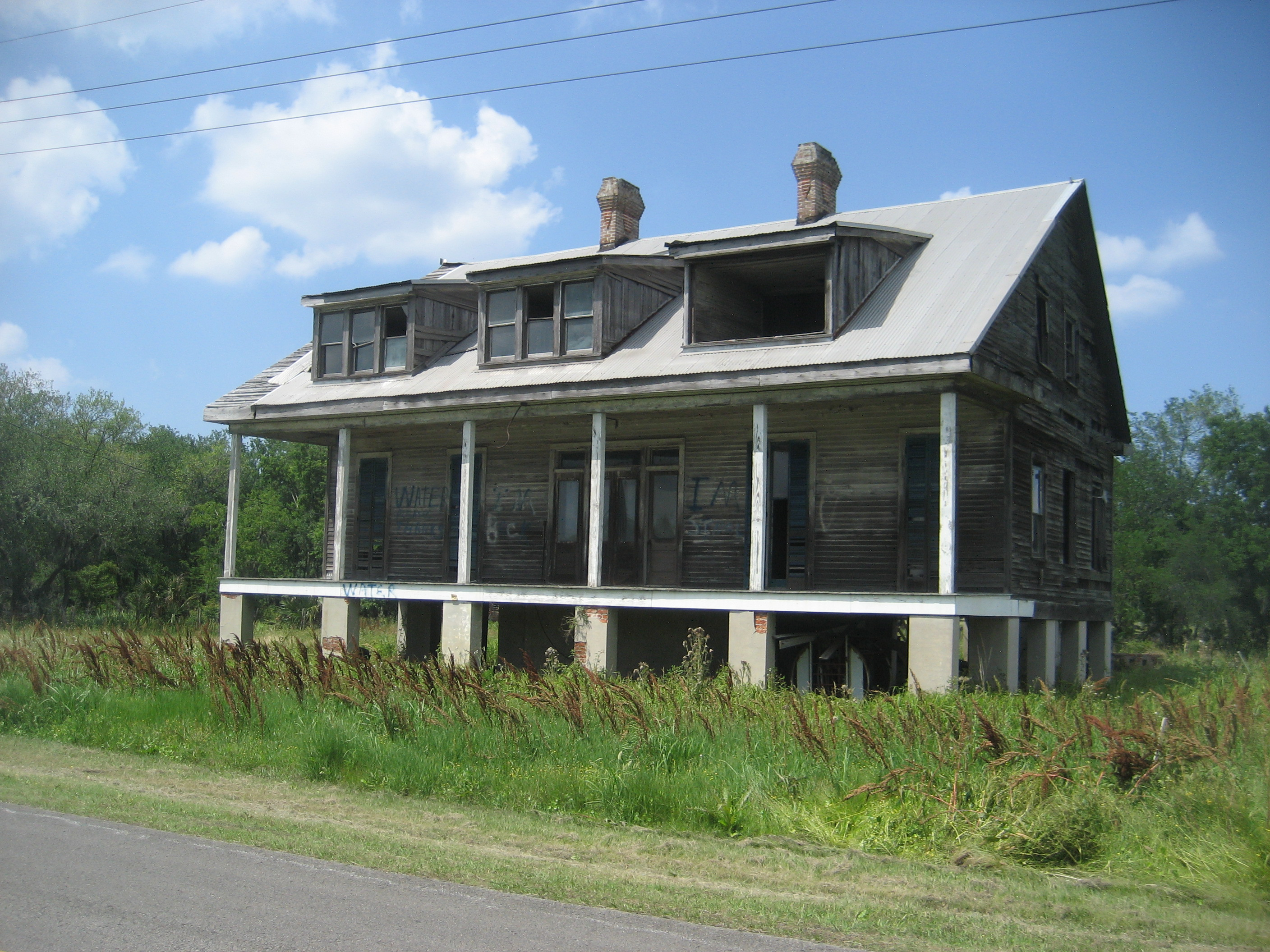 House on Highway 39 between Davant and Phoenix, Plaquemines Parish, Louisiana. Damage from Hurricane Katrina disaster and inscriptions from the aftermath visible.